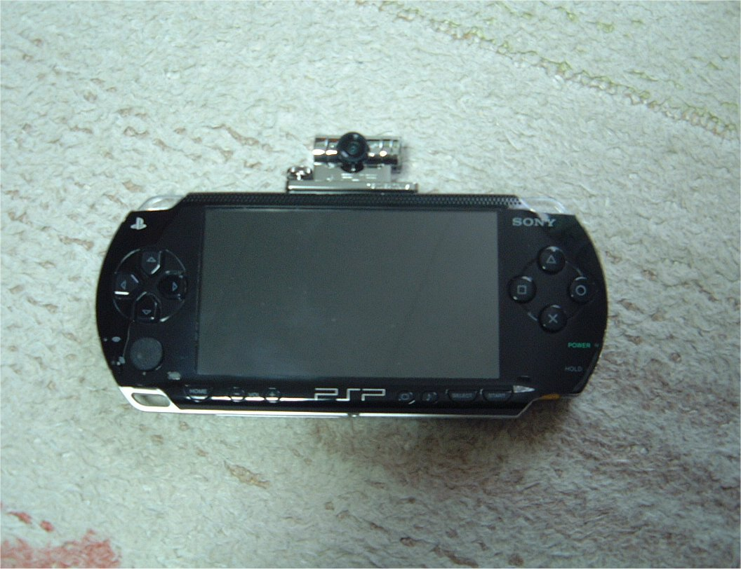 PlayStation Portable With Camera